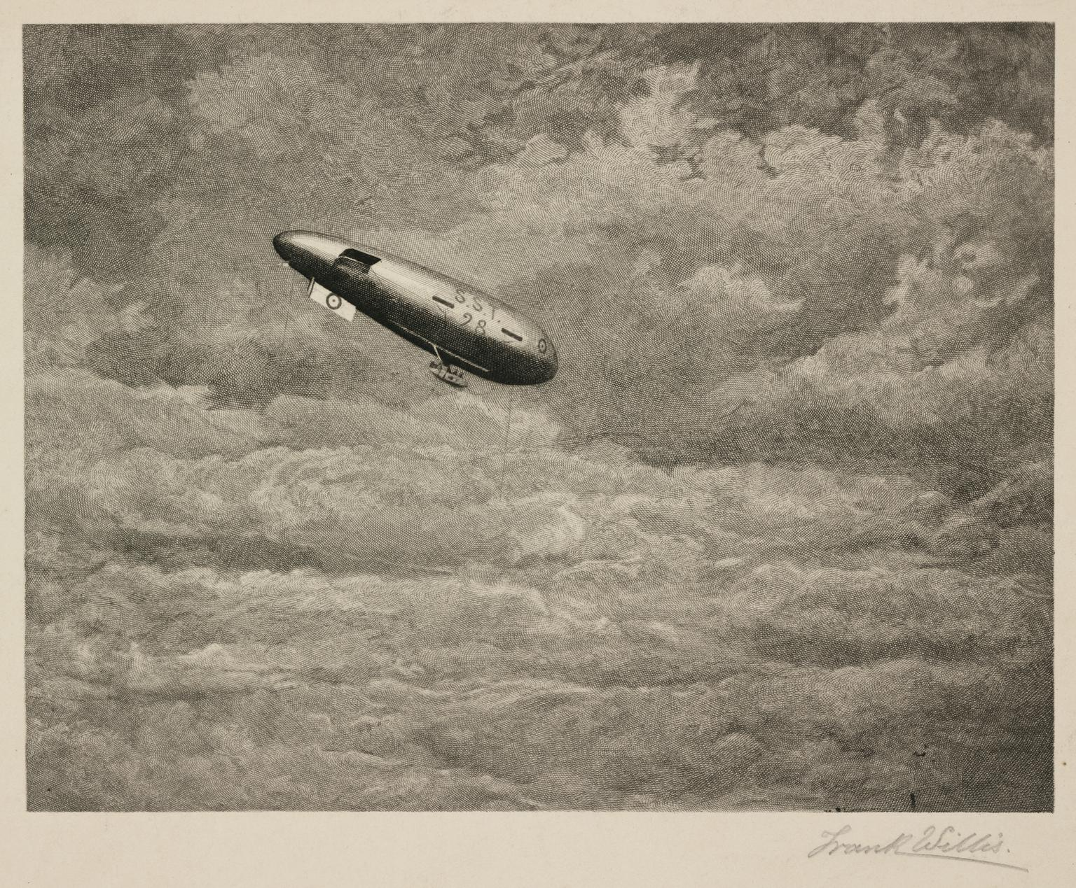 One print, 'Watching for Prey' by Frank Willis, signed,14" x 19 1/2", Airship S.S.T.28 in clouds 1914–1918